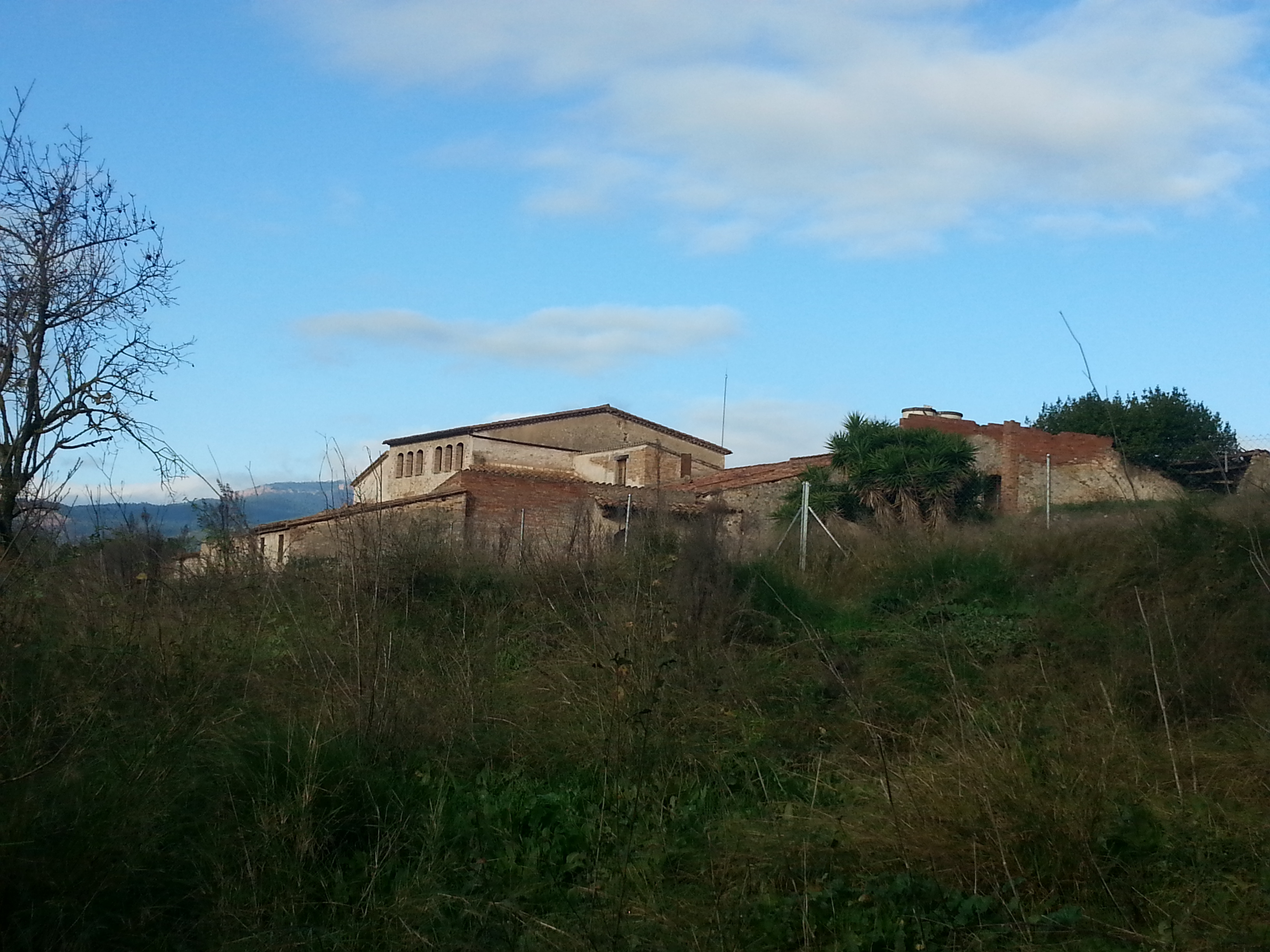 Ca n'Ametller were Francesc Ametller i Perer was born